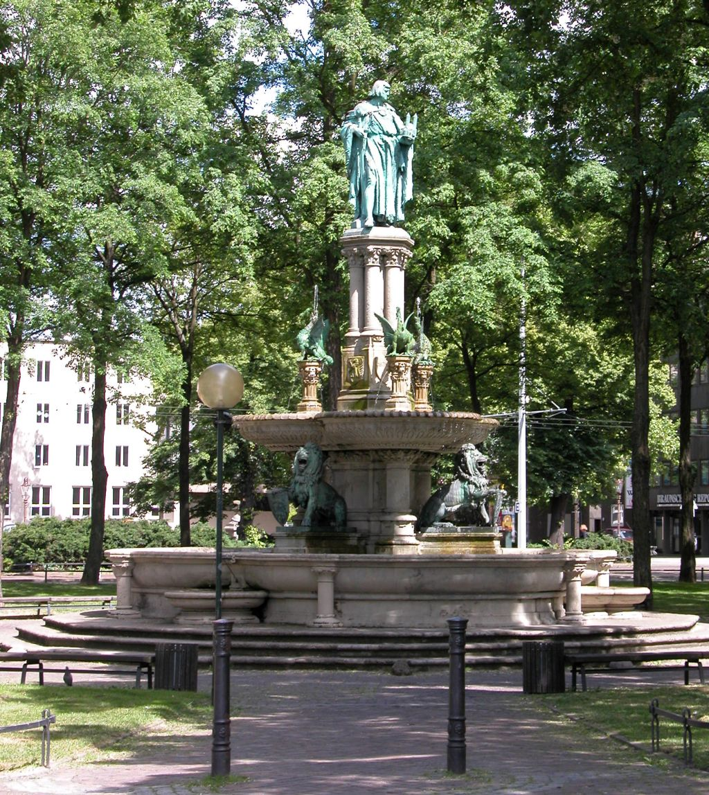 Brunswick, Germany: “Heinrichsbrunnen“ (Fountain of Henry the Lion).